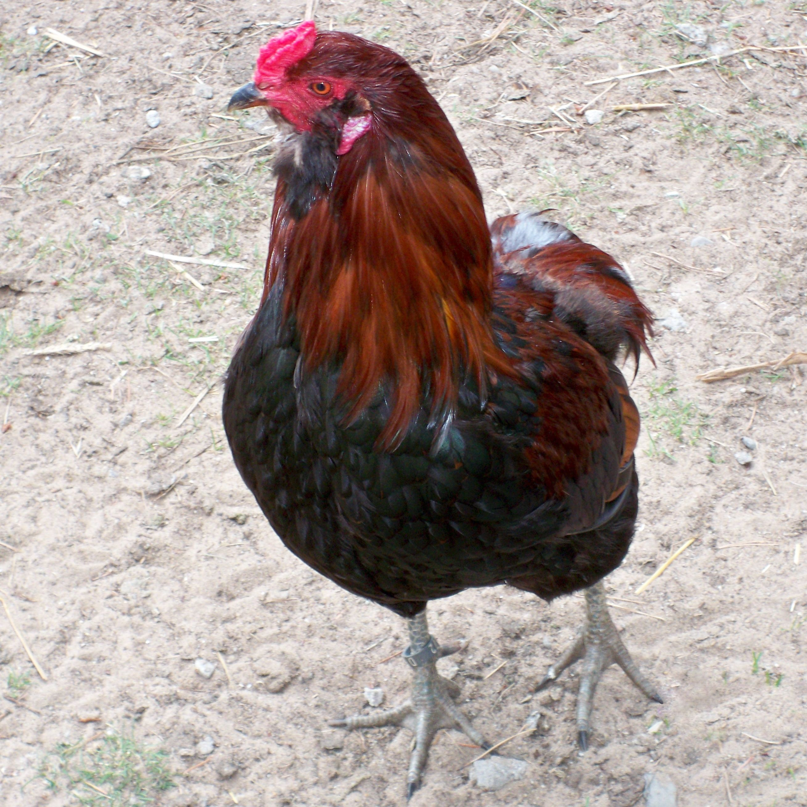 Aracuana Cock outside